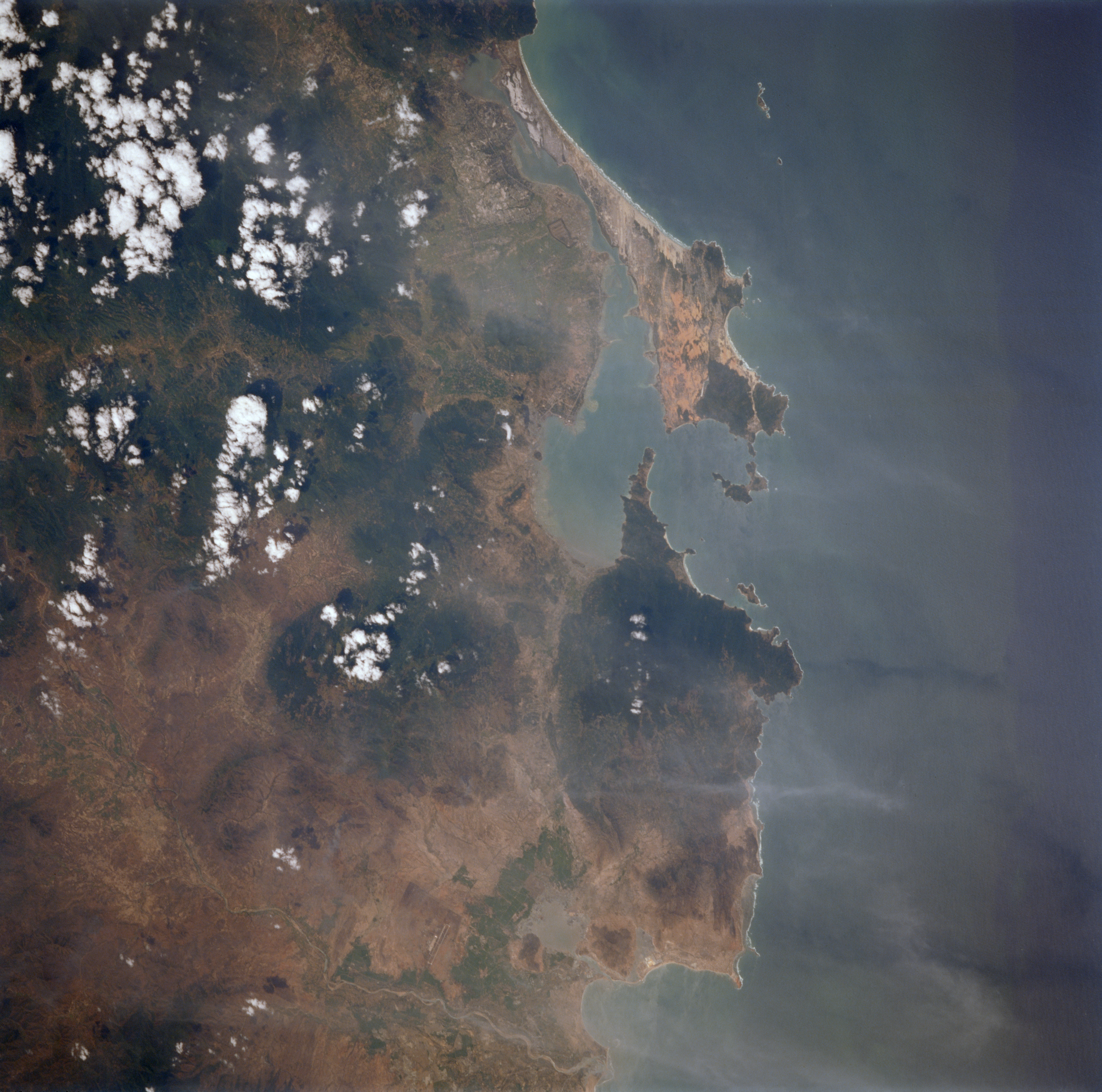 Cam Ranh Bay aerial view from NASA satellite.